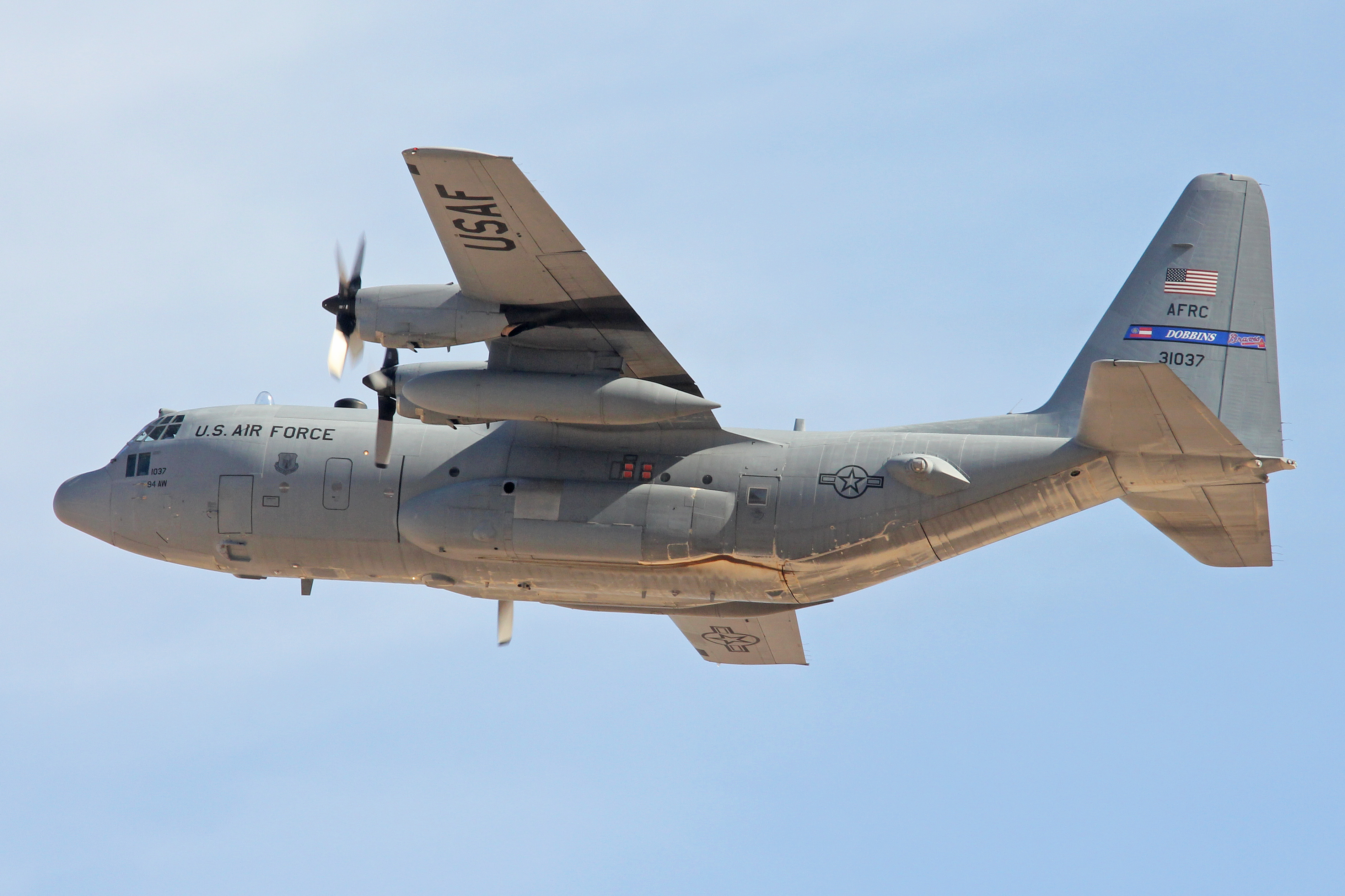 c/n 382-5369. Full US military serial 93-1037. Operated by the 700th Airlift Sqn, part of the 94th Airlift Wing based at Dobbins ARB, GA. Departing on a mission as part of Red Flag 16-2. Nellis AFB, NV, USA. 2nd March 2016